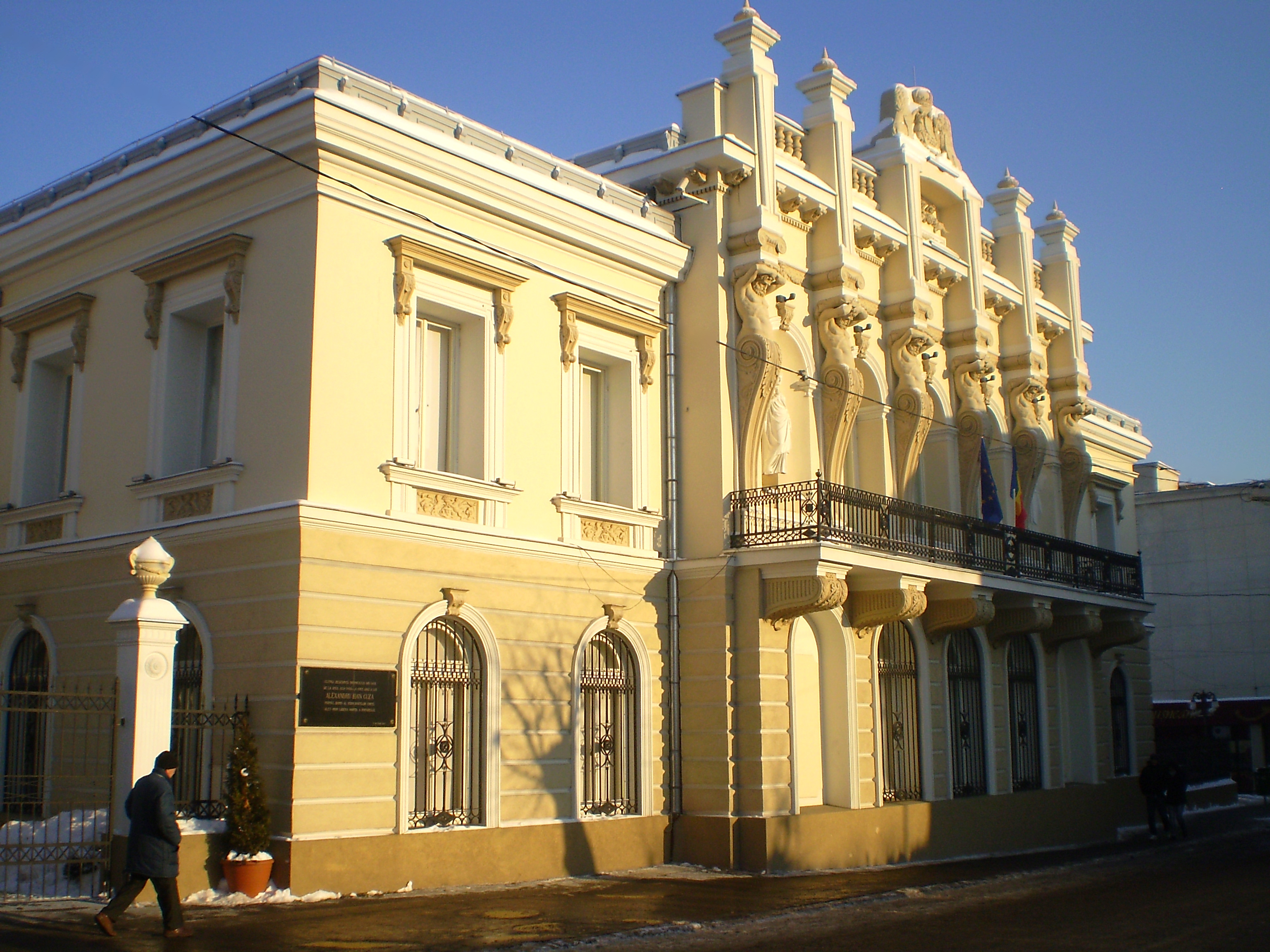 Iaşi , Union Museum , Iaşi , Romania